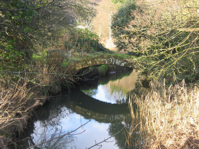 The Roman Bridge over the Clyne River at Blackpill, Swansea Photo taken from the modern bridge taking the Mumbles Road over the Clyne River.